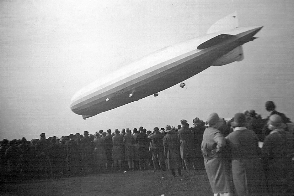 People watching the landing of Zeppelin LZ 127